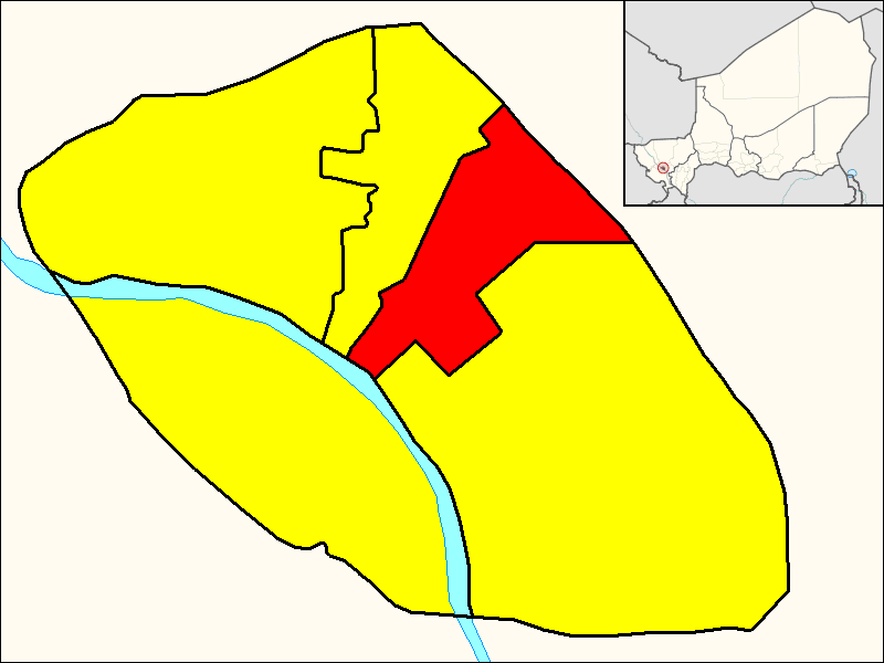 Map of the borough (commune) of Niamey III (shown in red) within the city of Niamey (yellow). Niger River is shown in the map.